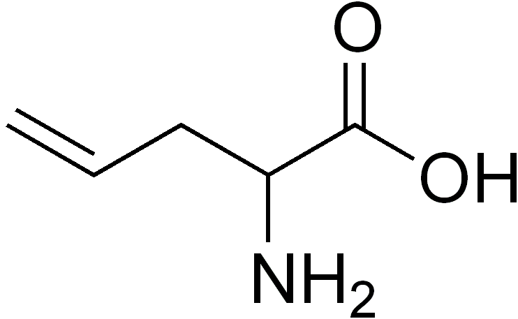 chemical structure of allyl glycine (allylglycine)